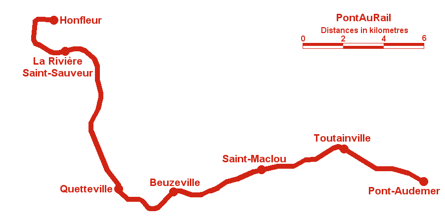 Plan of PontAuRail, Normandie.